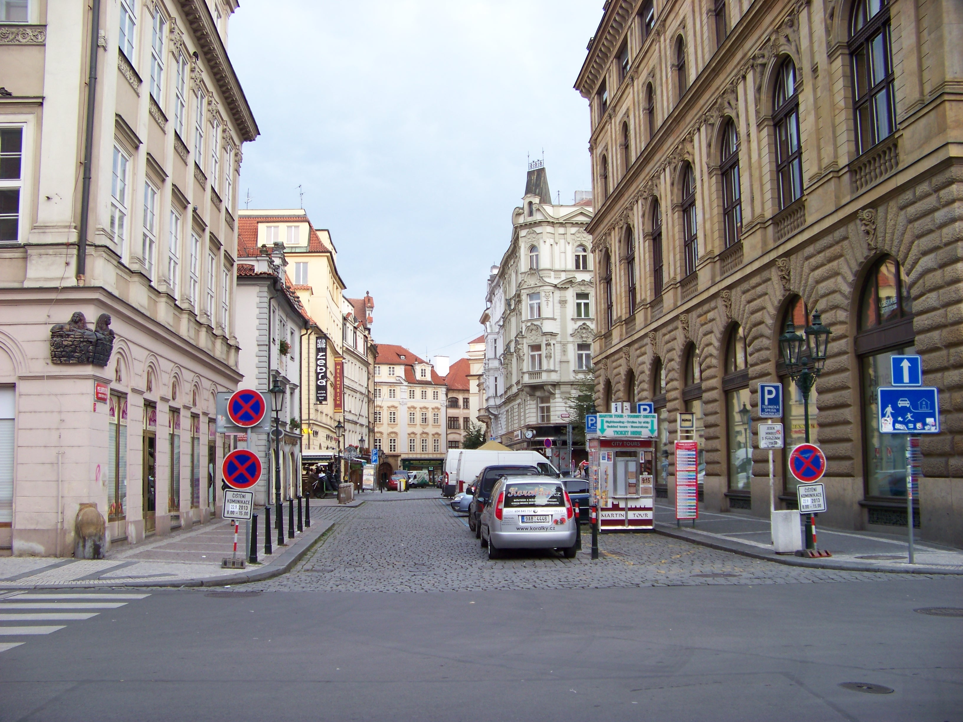 Prague-Old Town. Melantrichova street. - OpenStreetMap (Info)